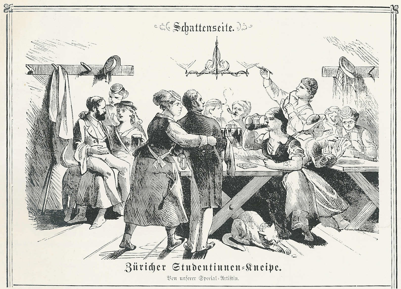 Female Zurich students harass male waiters in a pub, parody on women studying at Zurich University